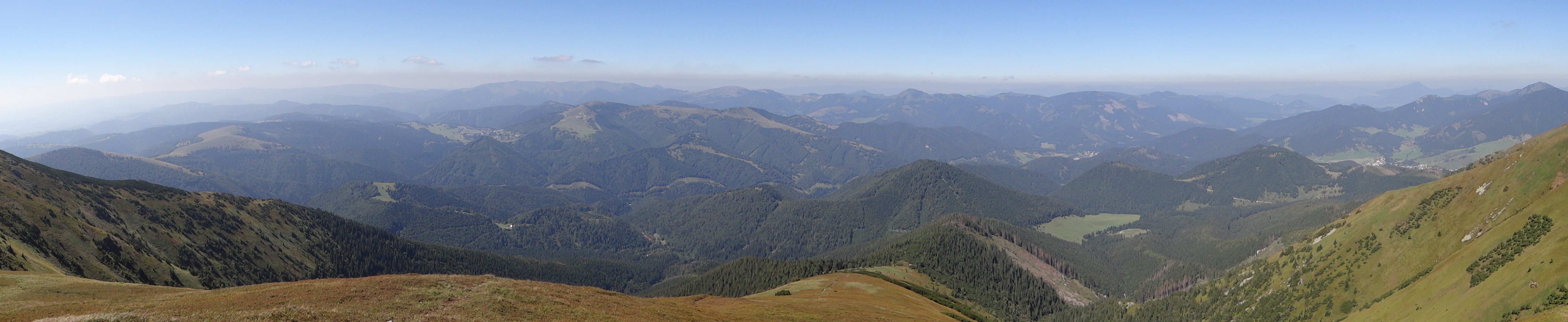 View from Malá Chochuľa